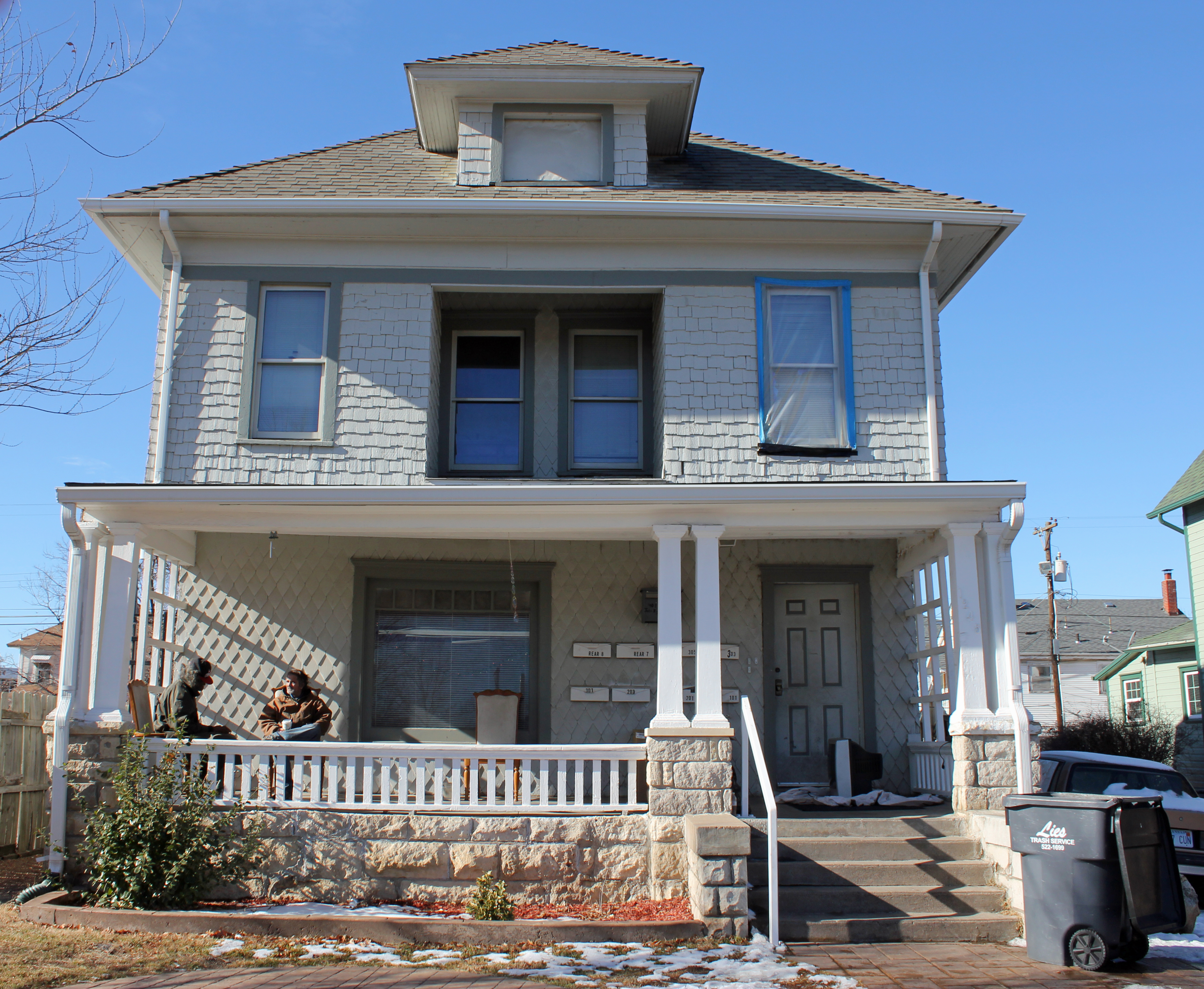 Governor L. D. Lewelling House, located at 1245 North Broadway in Wichita, Kansas. The property is listed on the National Register of Historic Places.